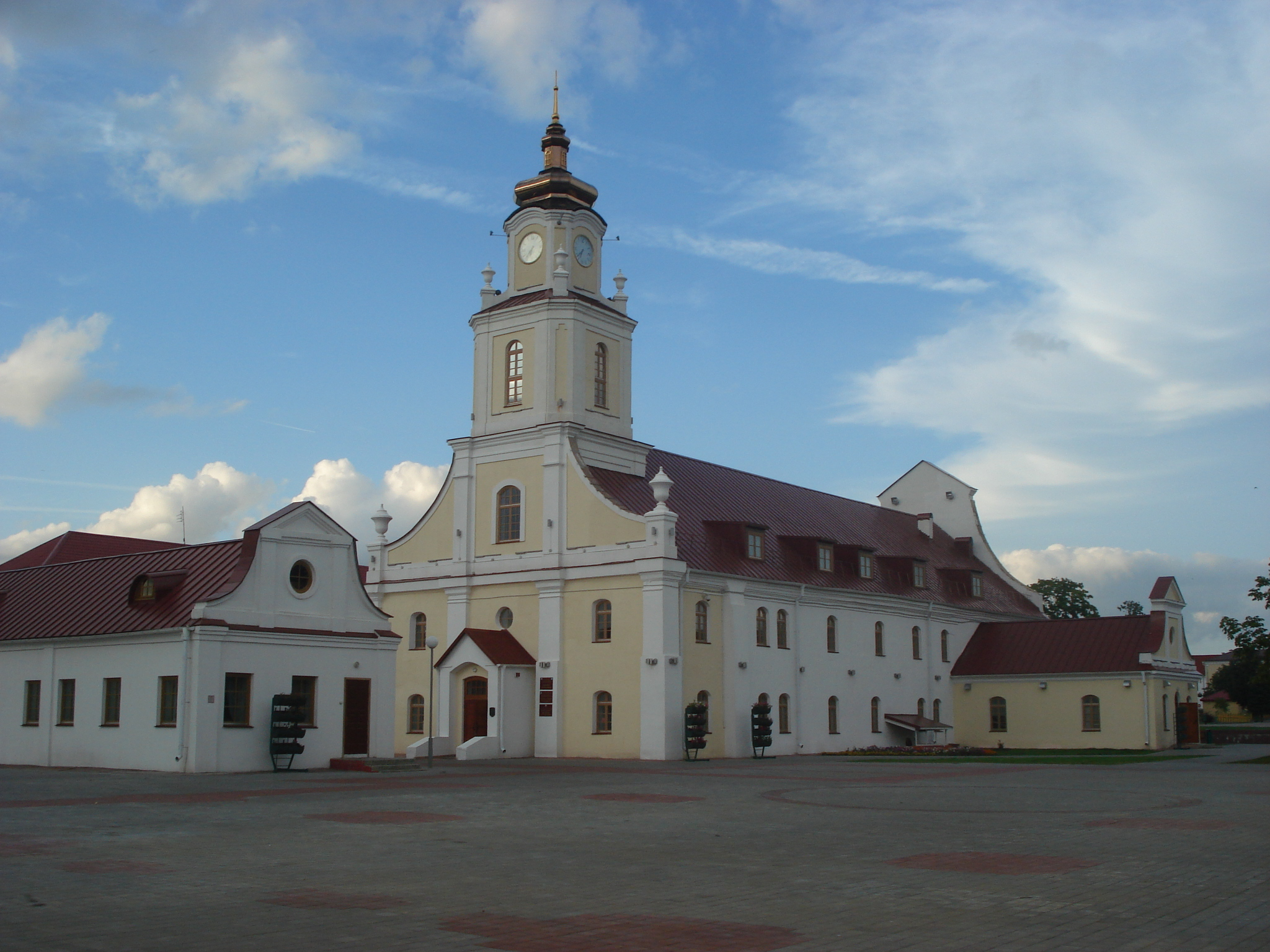 Former Jesuit Catholic Cloister in Vorša